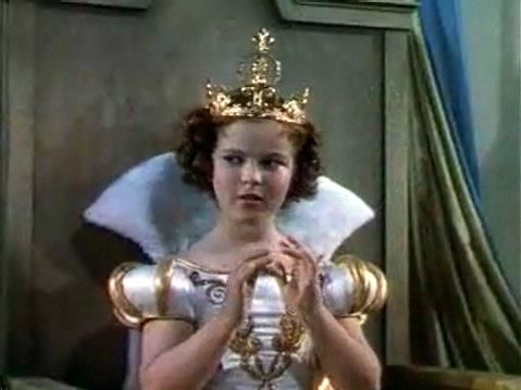 Screenshot of Shirley Temple from the film The Little Princess